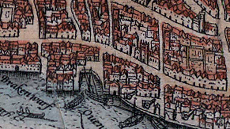 Vintry Ward (London) from am 1572 map by Agas